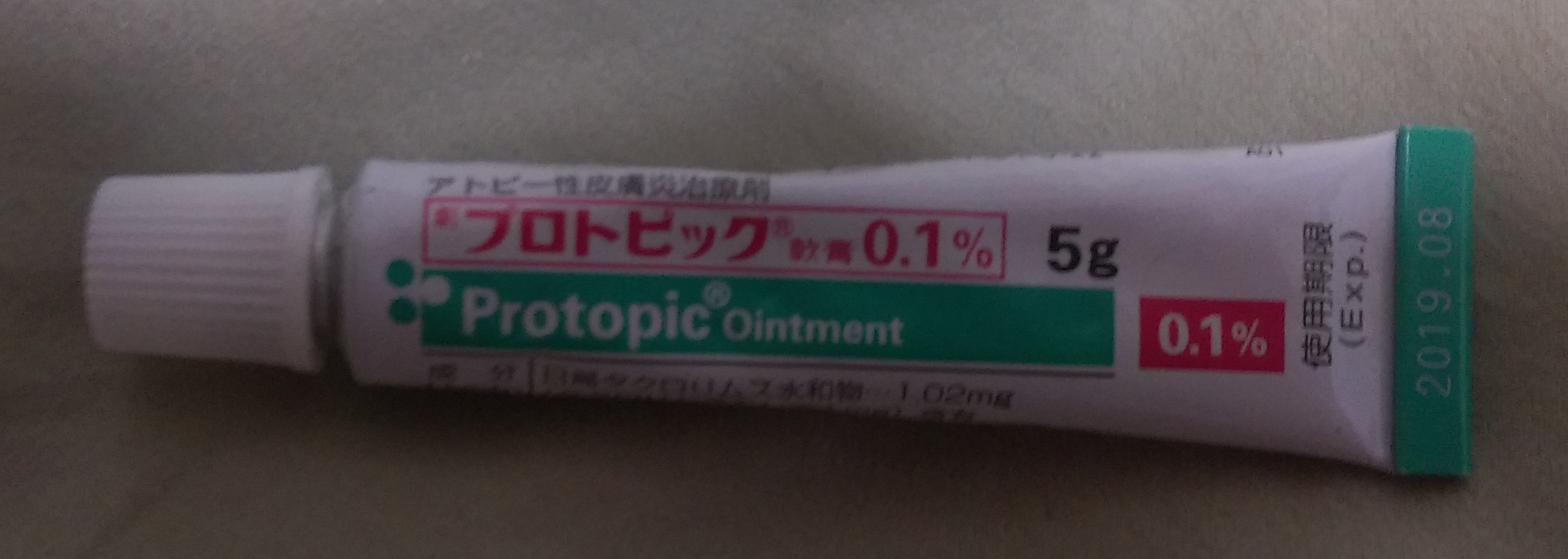 tacrolimus ointment